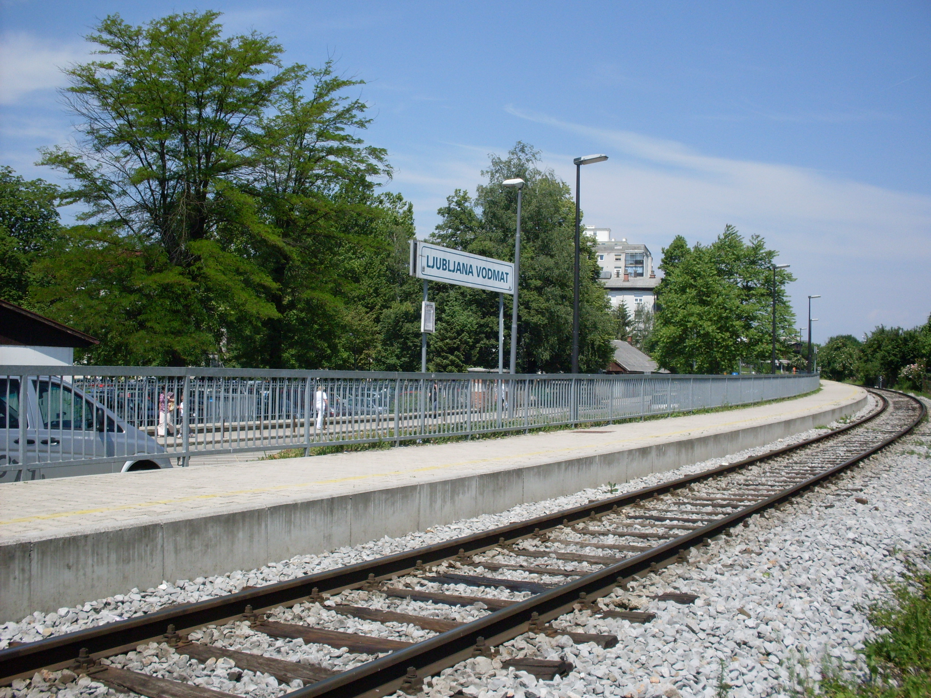 Rail halt Ljubljana Vodmat, located in central Ljubljana's district of Vodmat